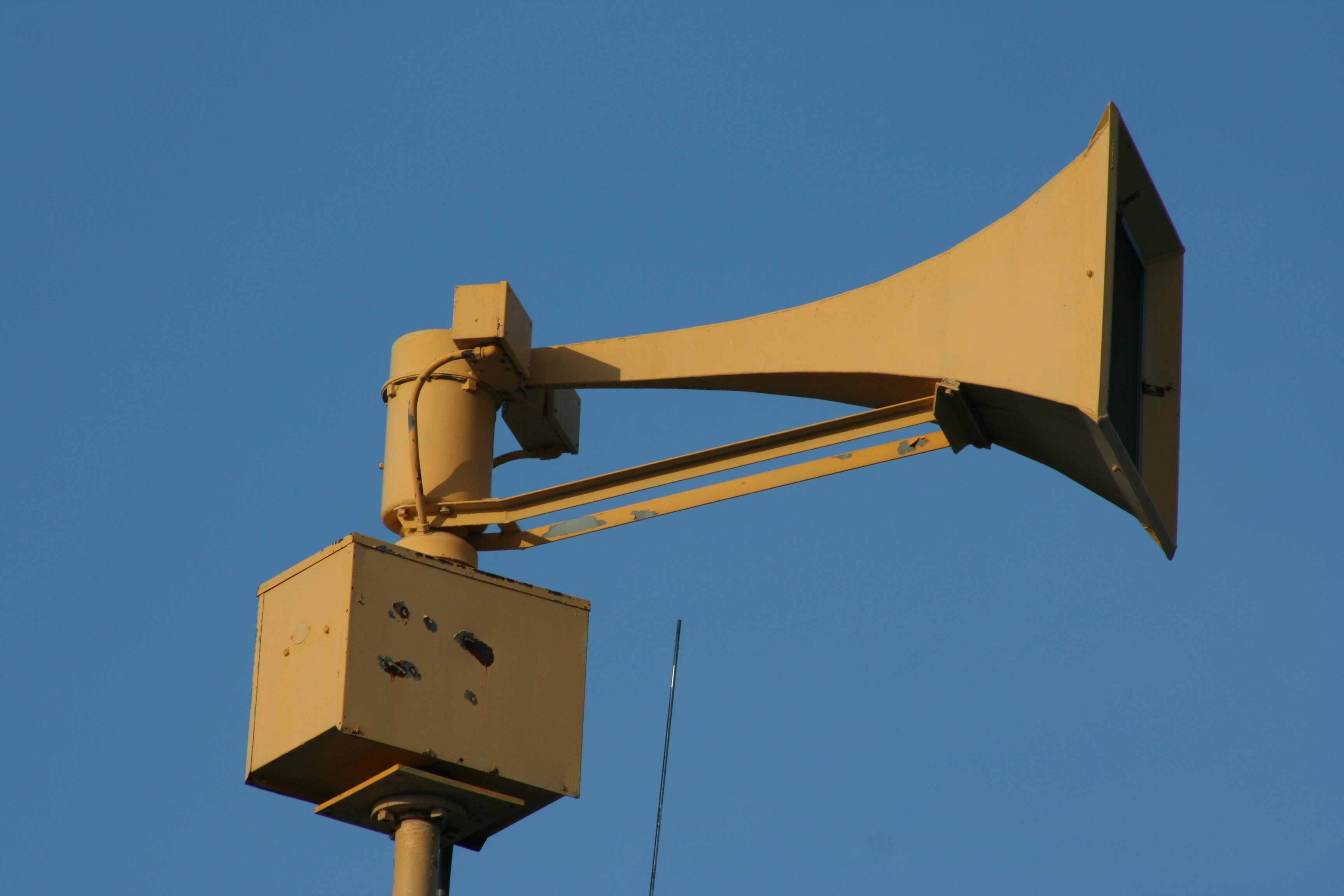 Federal Signal Thunderbolt 1003 (dual tone) siren head mounted on pole in Louisville, KY